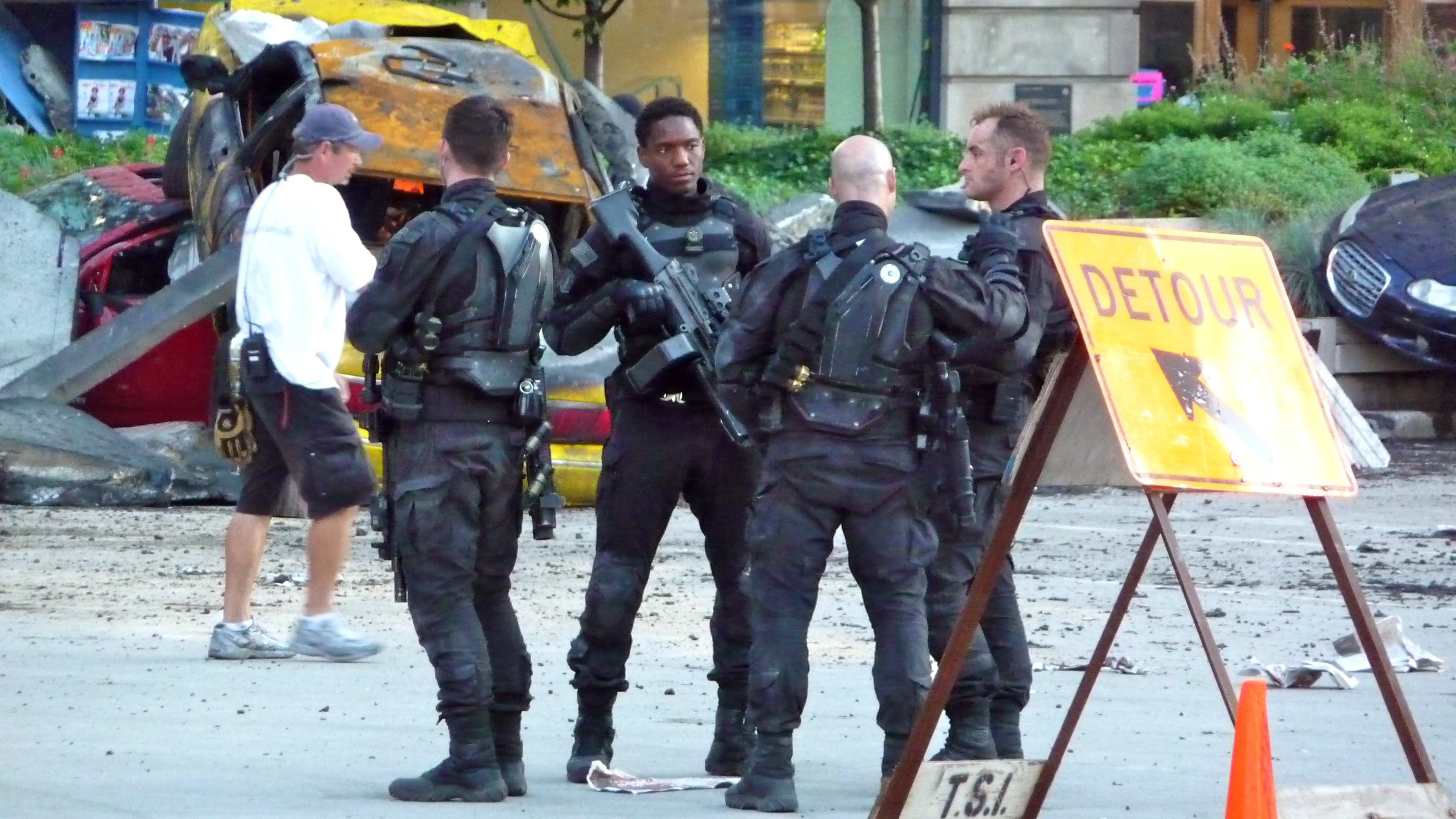 Actors on the set of Transformers 3 in Chicago, 25 July 2010.